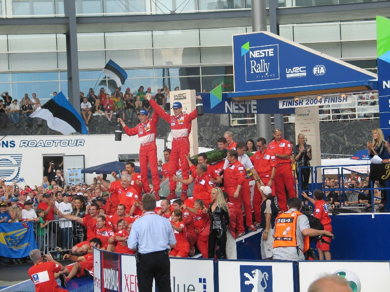 Marcus Grönholm, his Peugeot 307 WRC, co-driver Timo Rautiainen and the Marlboro Peugeot Total team (1st place) on the podium of the 2004 Rally Finland.